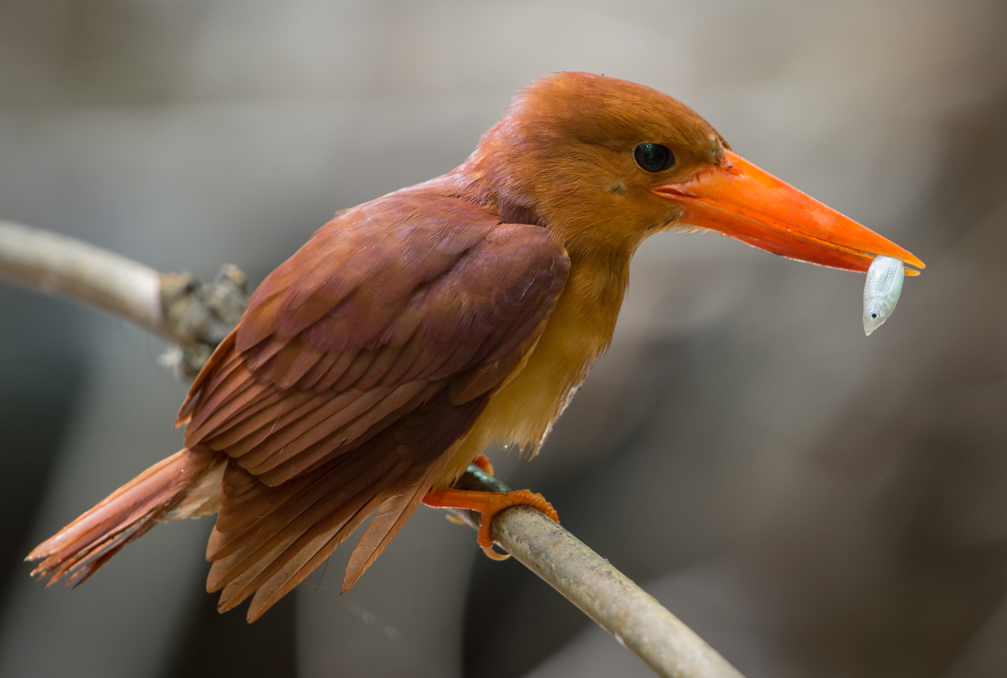 Ruddy kingfisher at Kaeng Krachan National Park, Thailand